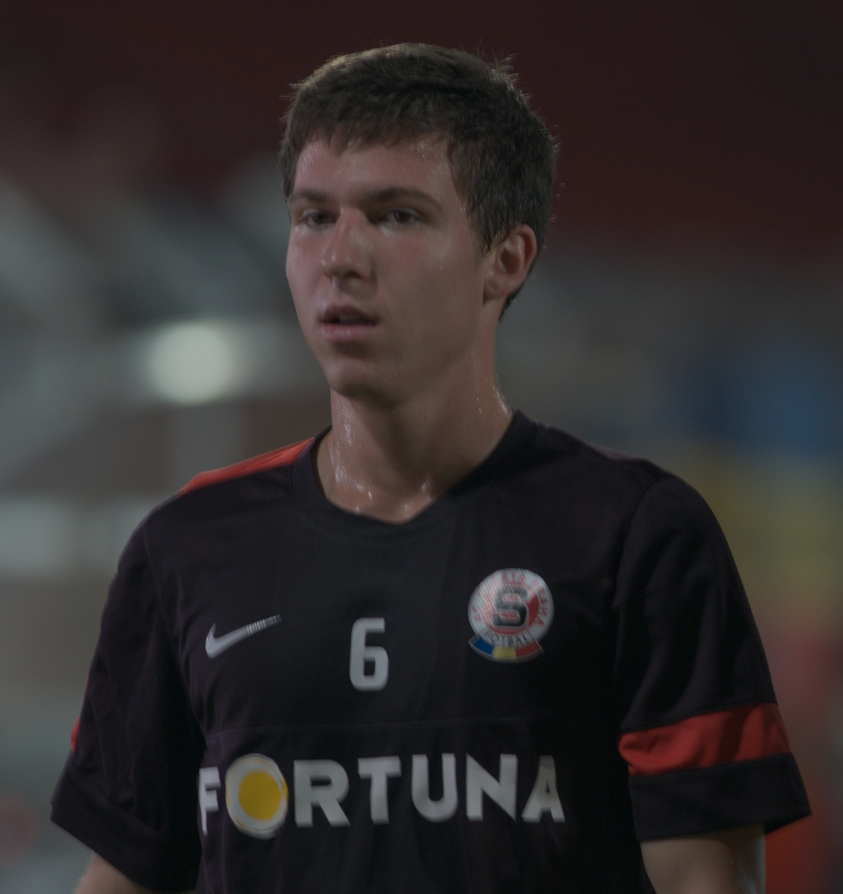 Tomáš Přikryl The making of this work was supported by Wikimedia Austria. For other files made with the support of Wikimedia Austria, please see the category Supported by Wikimedia Österreich.